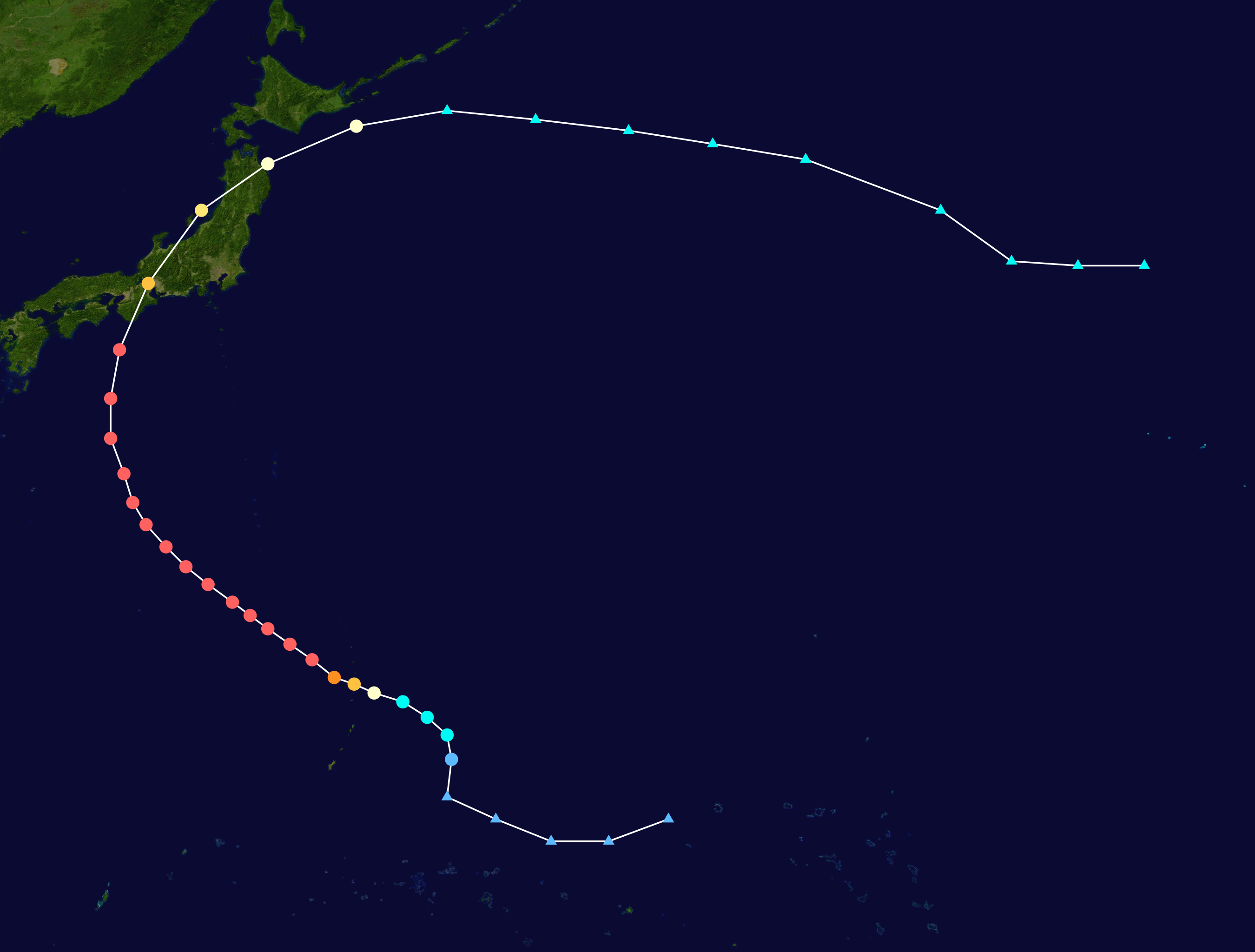 Track map of Typhoon Vera of the 1959 Pacific typhoon season. The points show the location of the storm at 6-hour intervals. The colour represents the storm's maximum sustained wind speeds as classified in the Saffir–Simpson scale (see below), and the shape of the data points represent the nature of the storm, according to the legend below. Saffir–Simpson scale Tropical depression≤38 mph≤62 km/h Category 3111–129 mph178–208 km/h Tropical storm39–73 mph63–118 km/h Category 4130–156 mph209–251 km/h Category 174–95 mph119–153 km/h Category 5≥157 mph≥252 km/h Category 296–110 mph154–177 km/h Unknown Storm type Tropical cyclone Subtropical cyclone Extratropical cyclone / Remnant low / Tropical disturbance / Monsoon depression